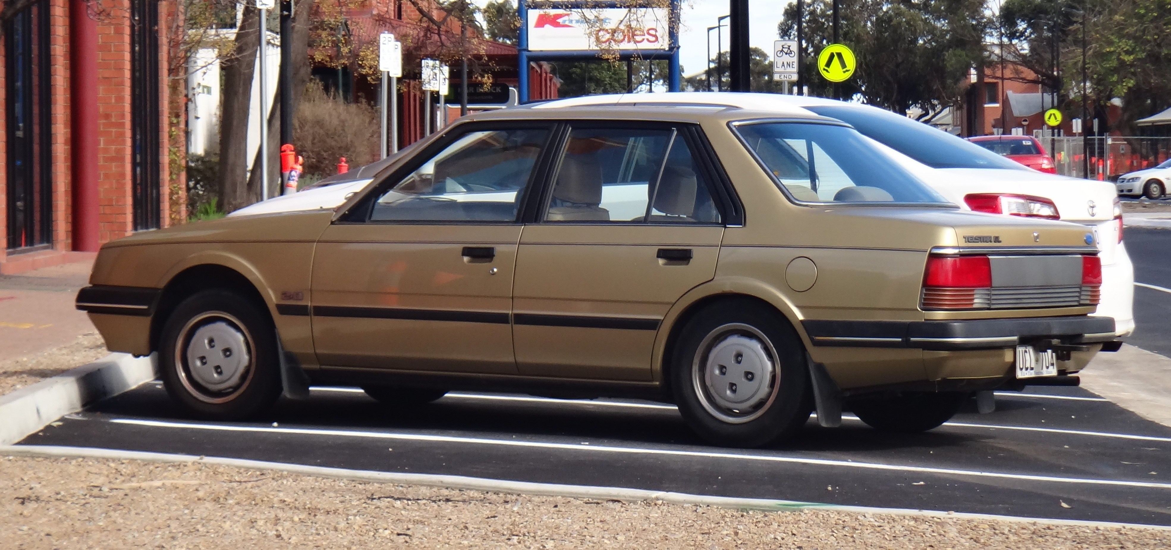 The Ford Telstar was the replacement for the Ford Cortina in Australia. It was a rebadged Mazda 626 and built and sold in Australia as a sedan and a 5dr hatch. Later on in the years, there was also a wagon, which was only sold in Japan and New Zealand. The first generation Telstar was voted Australian Car Of The Year, an award it shared with the Mazda 626, it would also be the second time the Telstar/626 twins would take out the Australian COTY. These are very thin on the ground now, especially these first generation models, but this one however, has been well looked after.